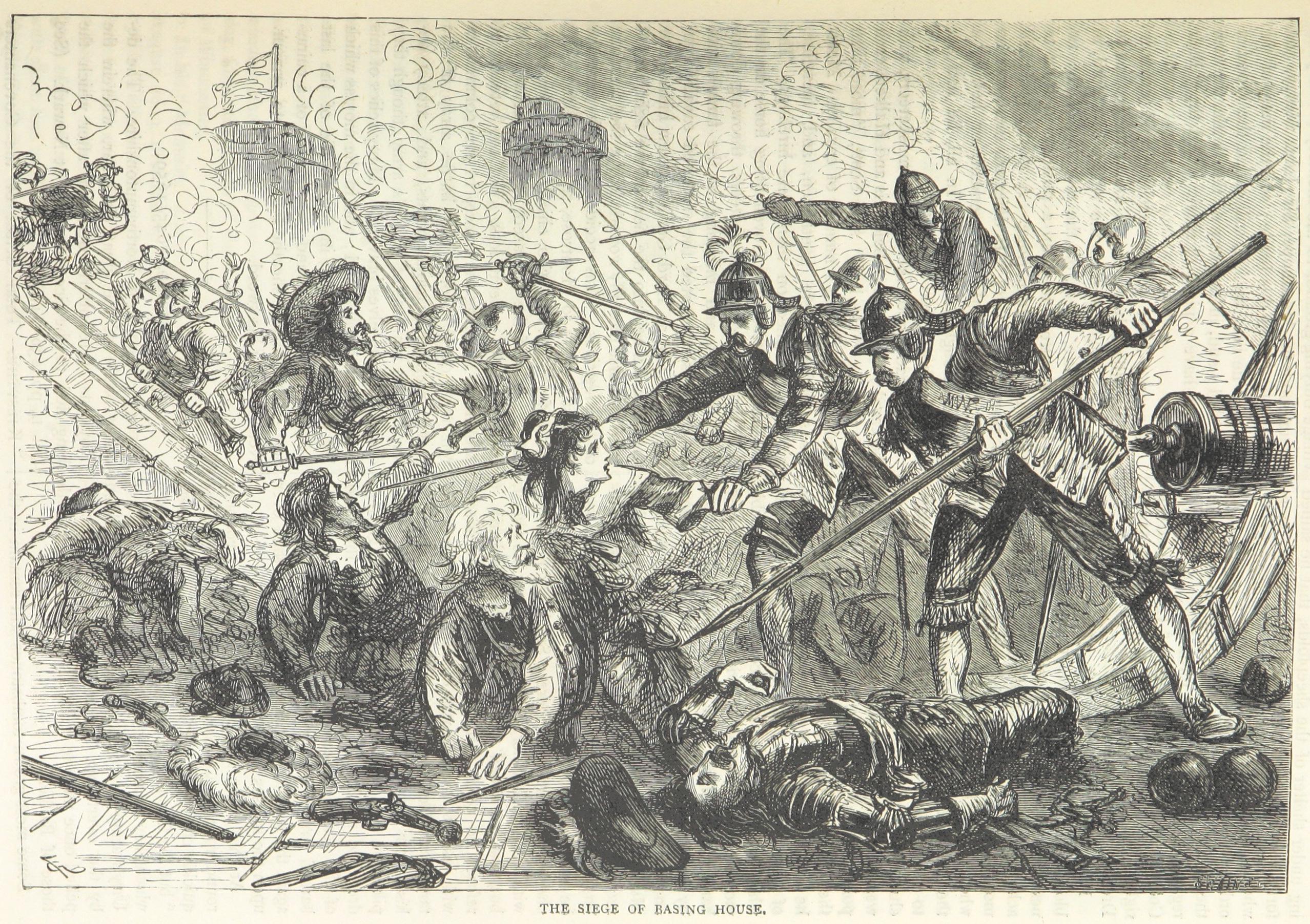 A Victorian illustration of the end of the Siege of Basing House.